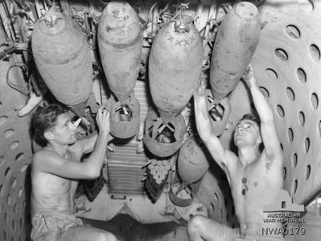 AWM caption : Hughes, NT. 11 March 1943. Armourers Corporal A. Strahle of Manly, NSW, and Leading Aircraftman N. S. Harvey of Mt Barker, SA, loading 500lb and 250lb bombs into the bomb bay of a Lockheed Hudson aircraft of No. 2 Squadron RAAF.